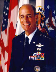 General Howell M. Estes III from [1]